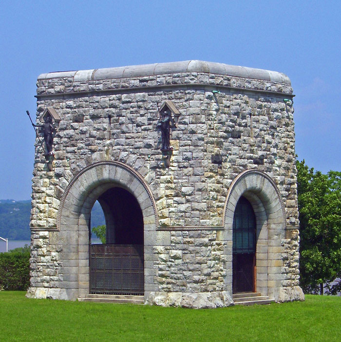 Photographed by Daniel Case 2006-07-01